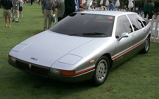 Lancia Medusa, Italdesign concept car on Beta-basis from 1980, fitted with the 120hp 1995cc engine used in the Lancia Montecarlo.